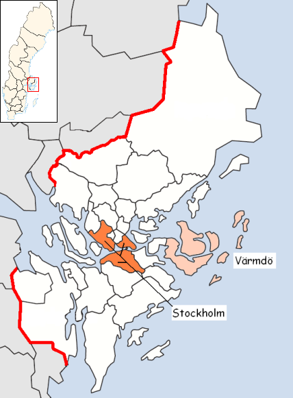 Värmdö Municipality in Stockholm County Designed by me. Mere outlines are a PD source from